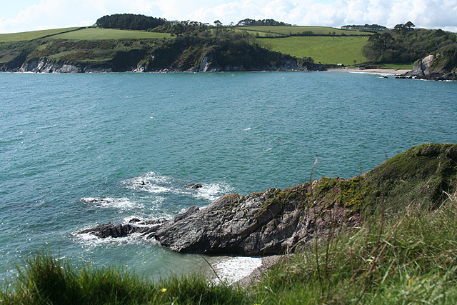 Kingston: towards Meadowsfoot Beach View across Erme Mouth near Muxham Point, with Red Cove in the foreground